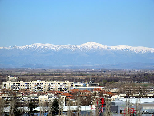 Plovdiv. View to the Balkan Mountain